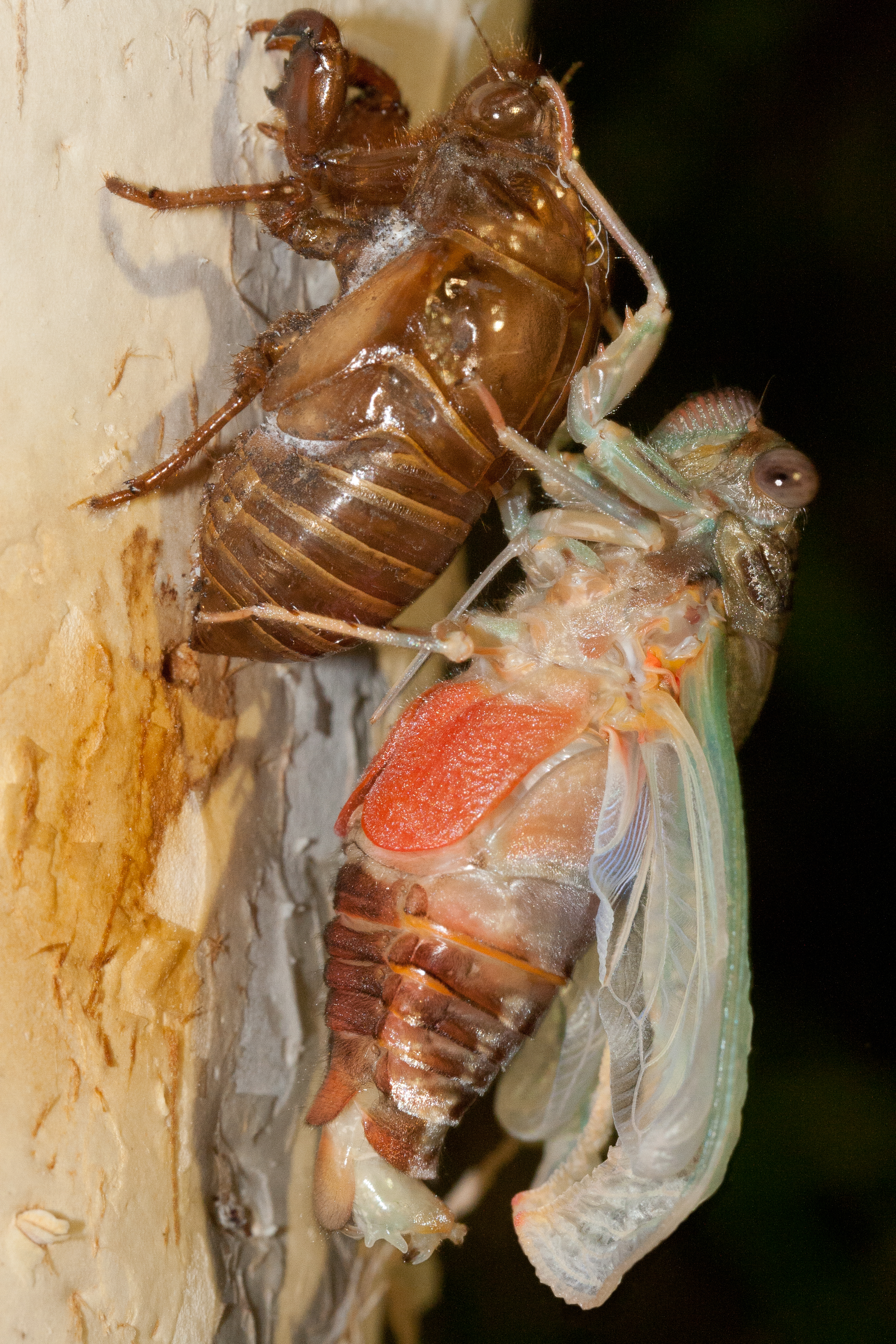 Razor grinder cicada Henicopsaltria Eydouxii